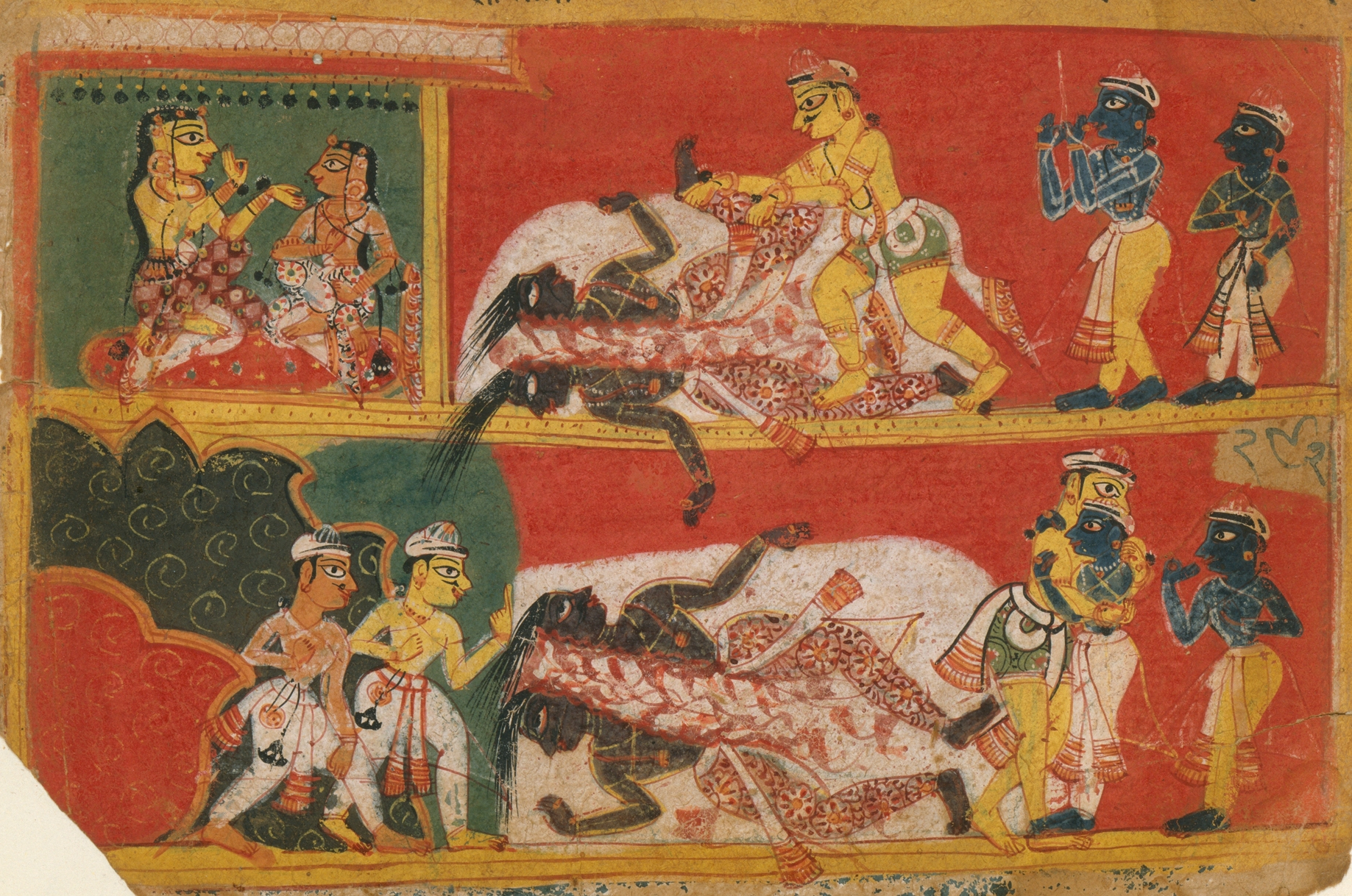 Bhima Slays Jarasandha: Page from a Dispersed Bhagavata Purana Manuscript Date: ca. 1520–40 Culture: India (Delhi Agra area) Medium: Ink and opaque watercolor on paper Dimensions: 6 3/4 x 9 1/16 in. (17.1 x 23 cm) Classification: Painting Credit Line: Gift of Cynthia Hazen Polsky, 1985 Accession Number: 1985.398.16 Description Jarasandha, the mighty and evil ruler of Magadha, had imprisoned ninety-five kings, but he could not be defeated, as he was an invincible general and, because of a boon from the gods, could not be harmed by weapons. To bring about his downfall, Krishna tricked him into initiating a wrestling match with Bhima, who tears Jarasandha in half (upper register). At right, Krishna and Arjuna look on. Below, Bhima embraces Krishna and two of the imprisoned kings appear at left. As is typical of painting of this period, no attempt has been made to create pictorial depth and the interacting figures are shown in profile.